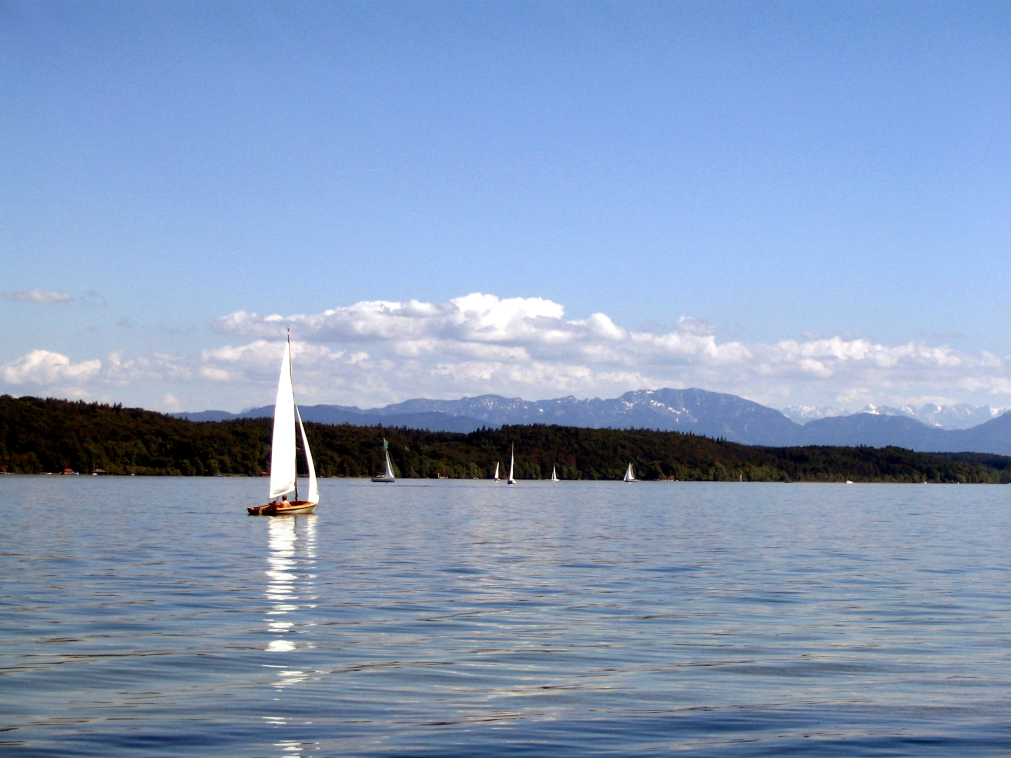 This image shows the Starnberger See (Germany) with the alps in the background.